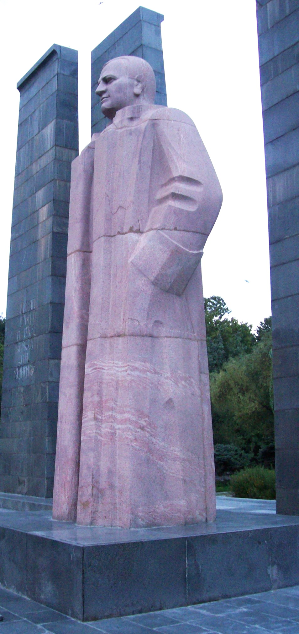 Aleksander Miasnikyan